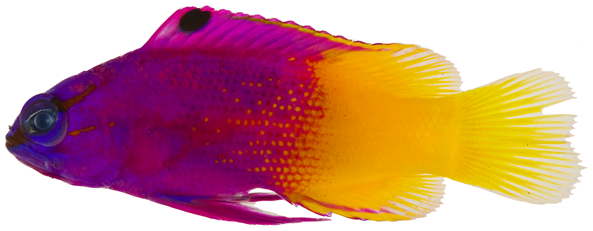 Gramma loreto Poey, 1868—fairy basslet, 38.4 mm SL. Photo by JT Williams.